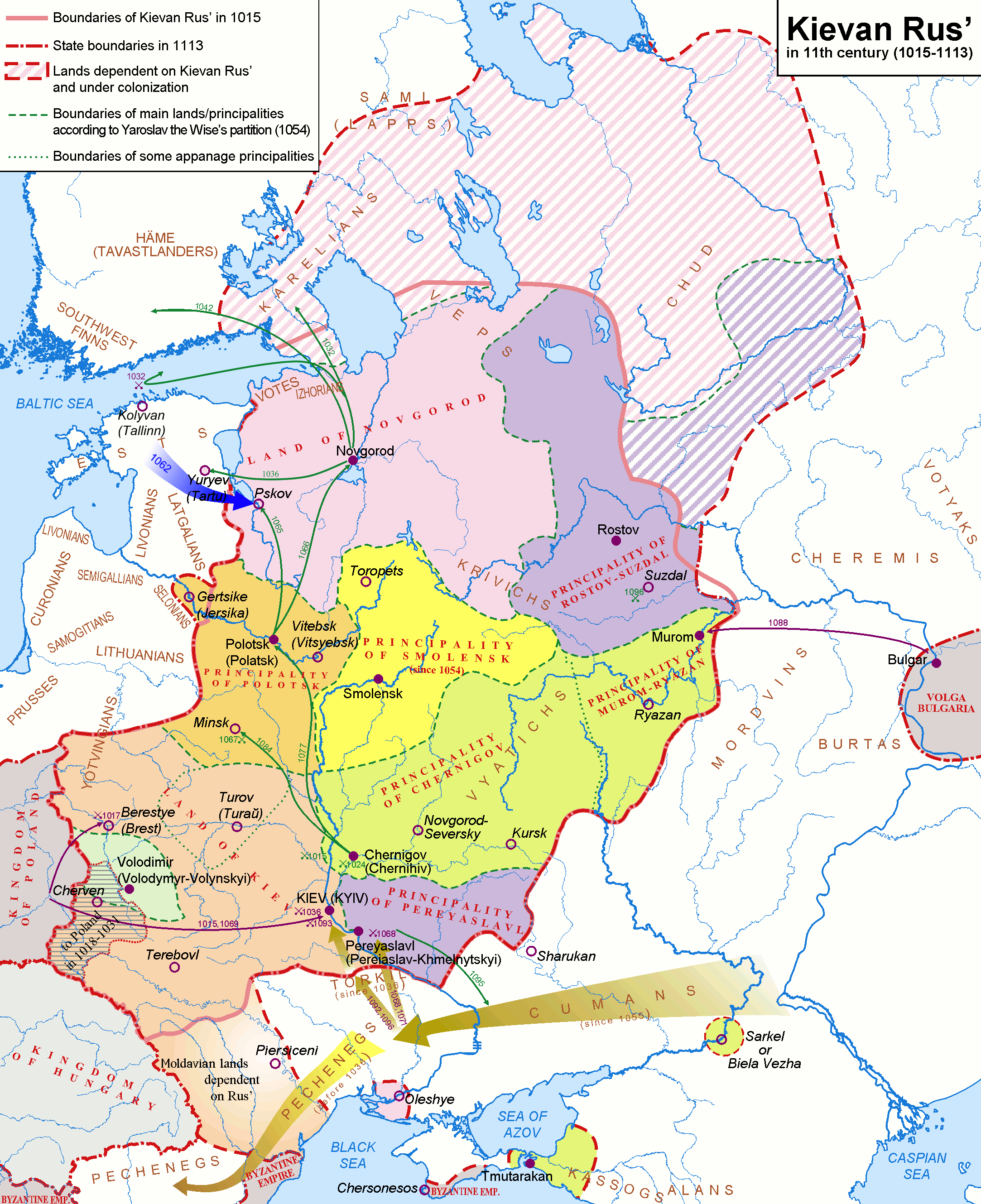 Map of the Kievan Rus' realm, 1015-1113 CE, of the medieval Rus' culture in Eastern Europe.